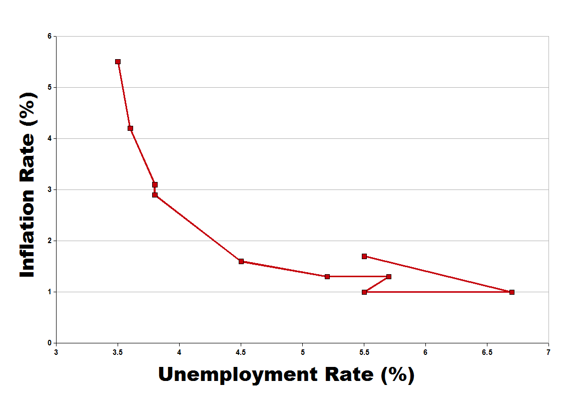 Relationship between the inflation rate and the unemployment rate (Philips Curve) in the US 1960-1969. Data from the U.S. Bureau Of Labor Statistics. Each dot is one year.